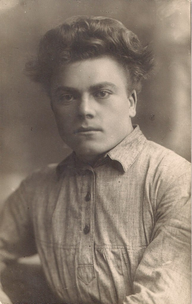 Photo of Belarusian poet Paŭluk Trus Беларуская (тарашкевіца): Паўлюк Трус. Фота з архіва Адама Бабарэкі (БДАМЛМ, ф. 407) На адвароце здымка — дароўны надпіс: «Адаму Бабарэку на добрую памяць ад сябра Ўсебелар[ускага] аб’ядн[аньня] поэтаў і пісьменьніка[ў] „Маладняк“ П. Труса. Закалосіць свабодным уздымам Маладога жыцьця акіян. 24/Х 25 г.».